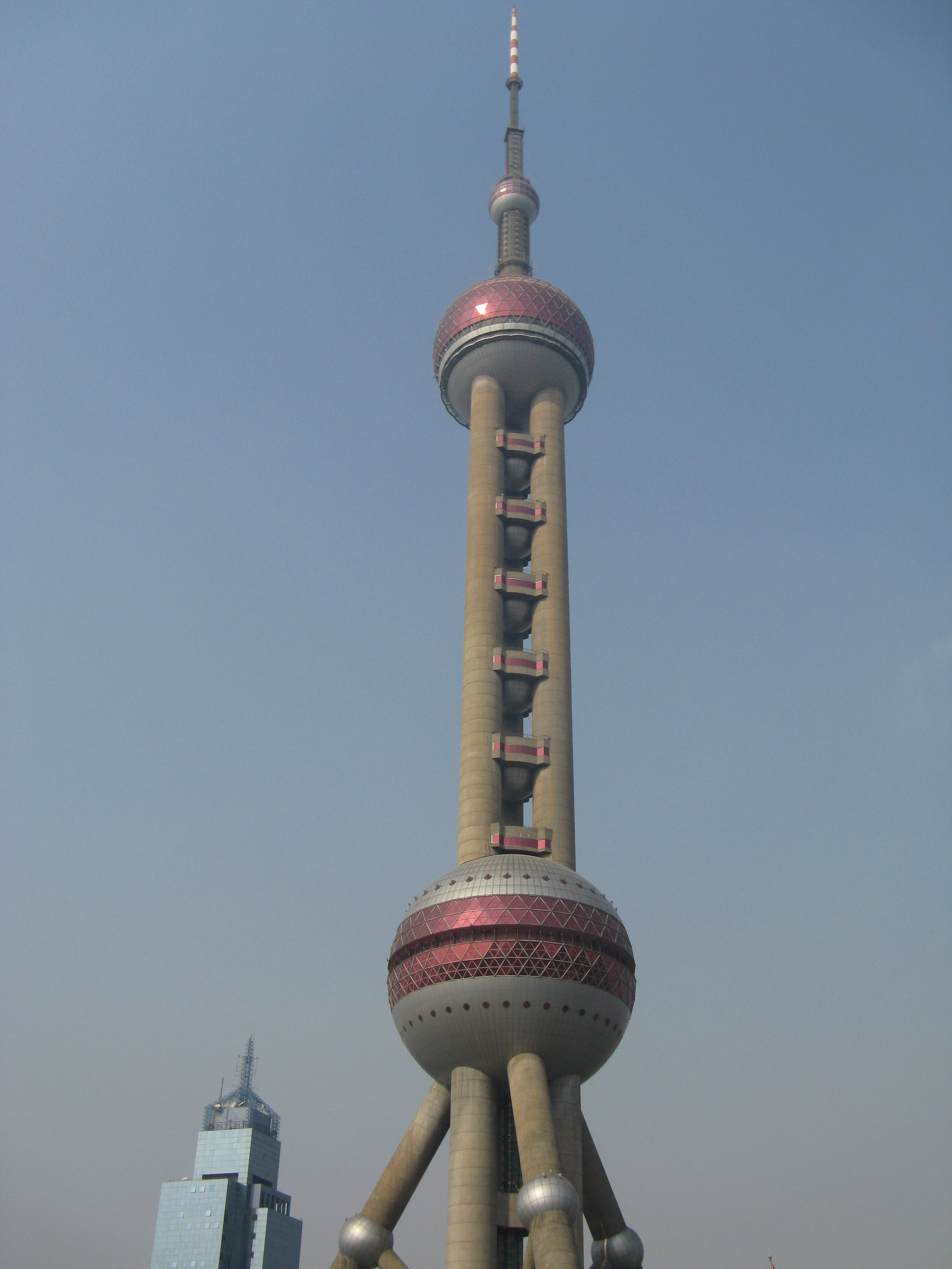 Oriental Pearl Tower